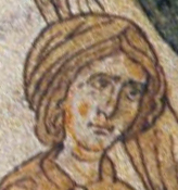 Sibylla of Acerra